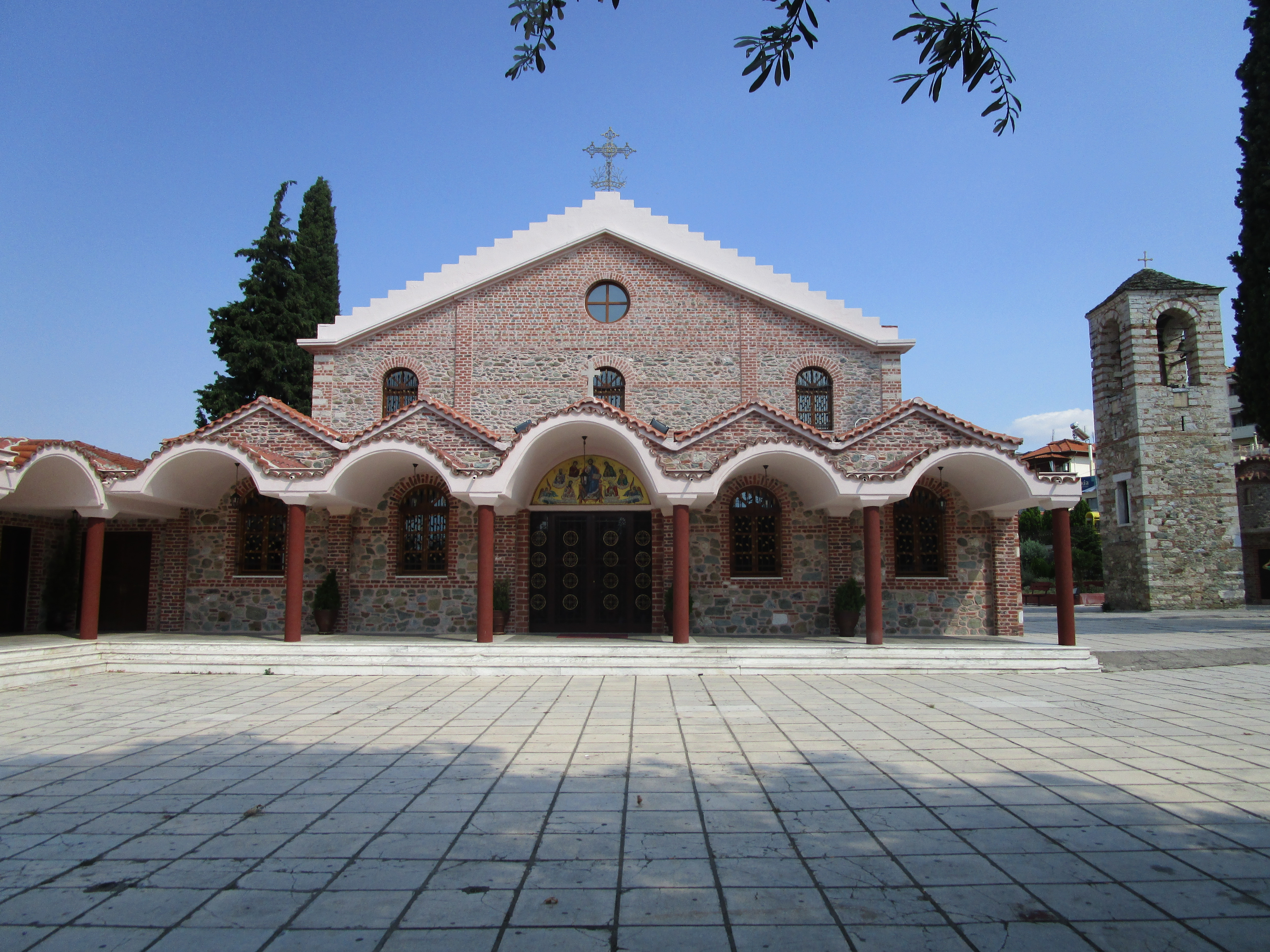 St. Ilias Kapudzhilar